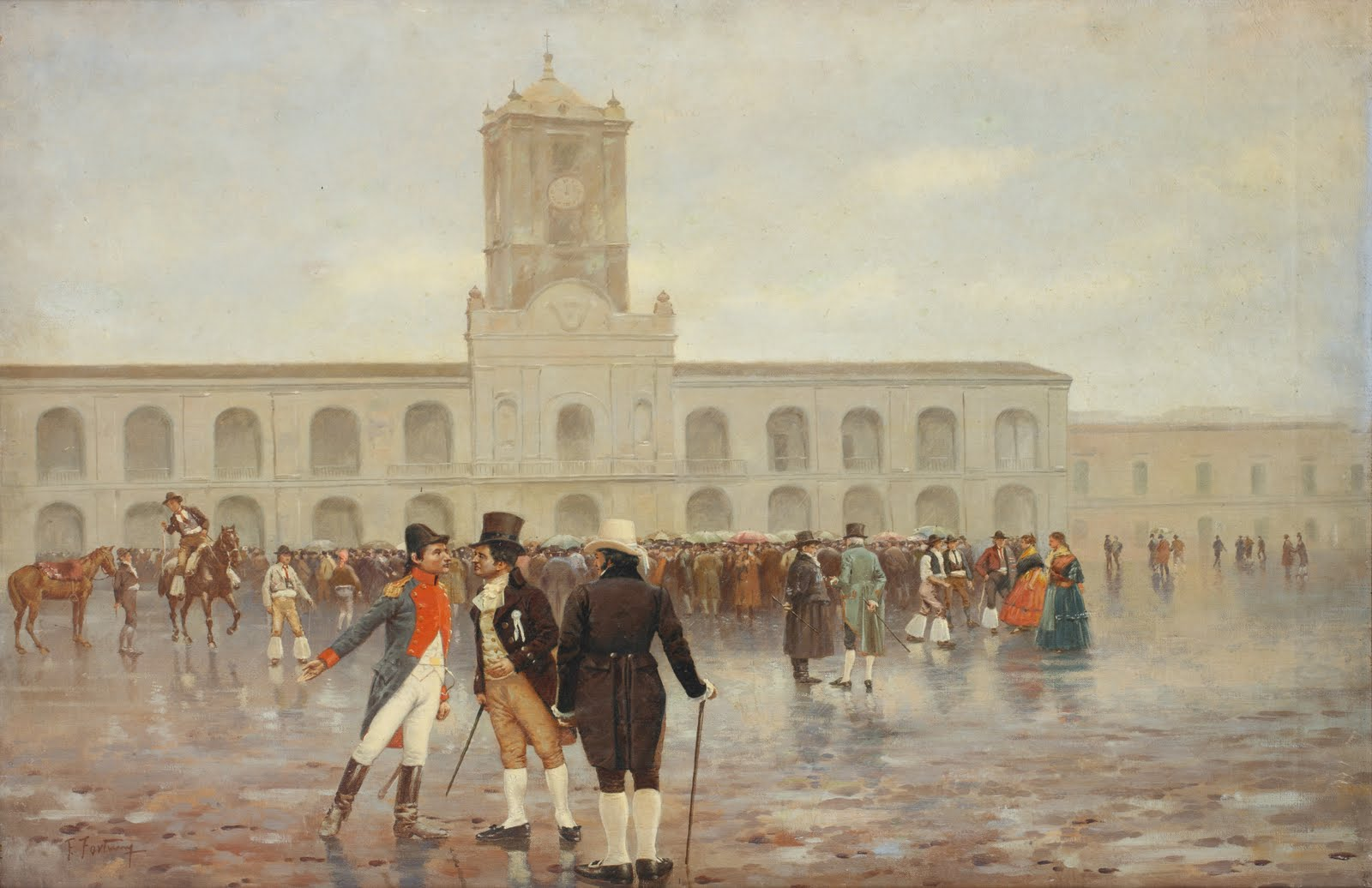 La Revolución de Mayo (The May Revolution), oil painting by Francisco Fortuny.